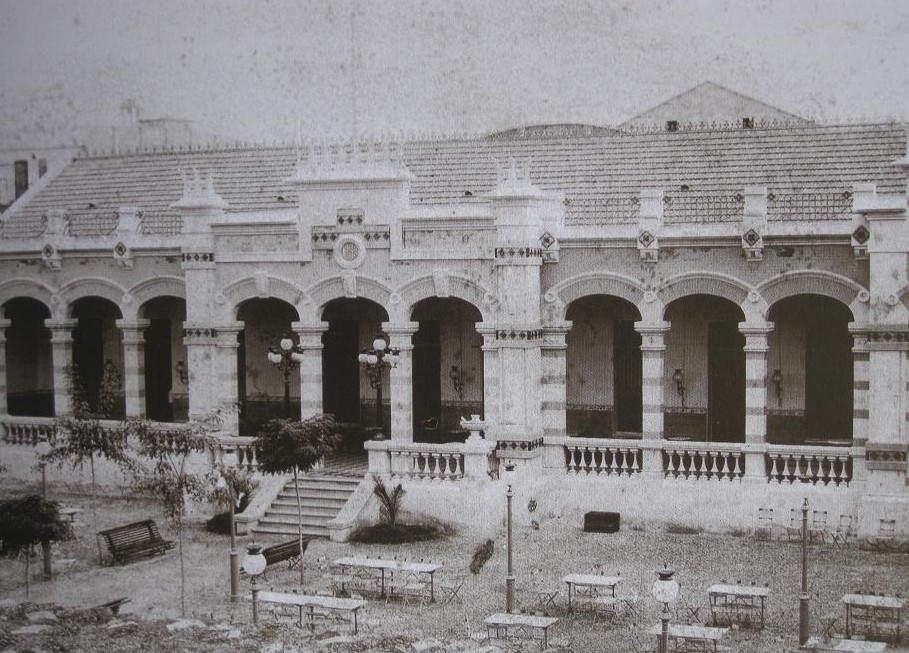 Cercle Mercantil, Igualada. Late XIX century.